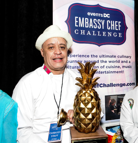 Price won in Washington